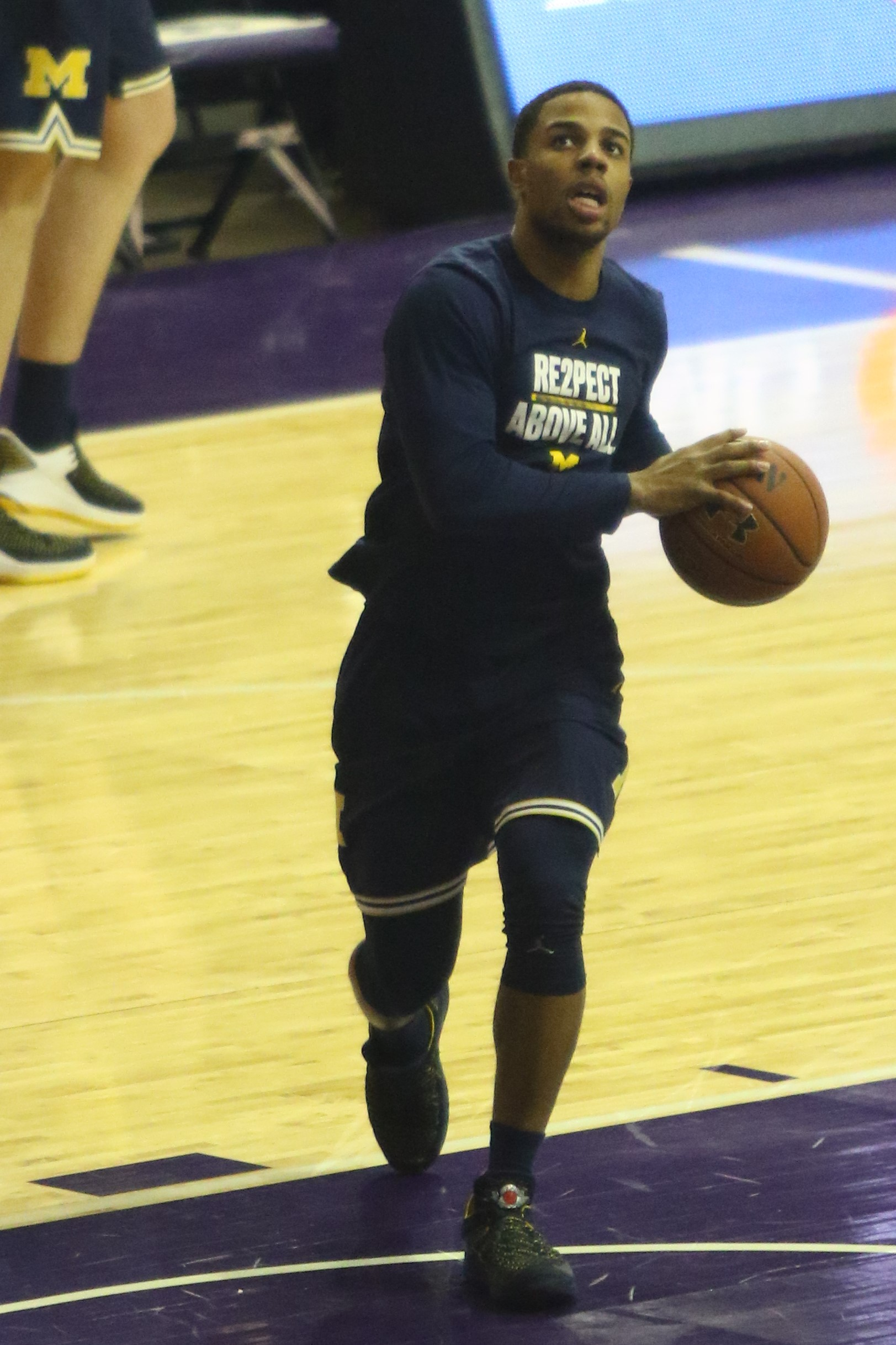 Jaaron Simmons playing for the w:2017–18 Michigan Wolverines men's basketball team at Allstate Arena